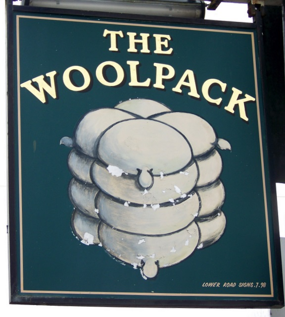 Sign for the Woolpack While the Woolpack and the Woolsack may seem to be different versions of the same sign, they are quite different. The Woolpack is a pack of wool weighing 240 lbs while a Woolsack is simply a sack of wool of any weight. These signs grew popular in wool producing areas and also reflect the importance of wool in the country's economy for centuries.